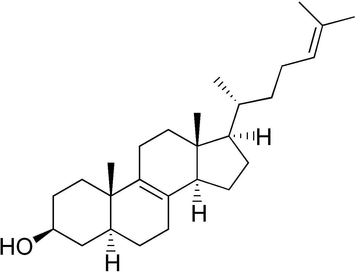 chemical structure of zymosterol